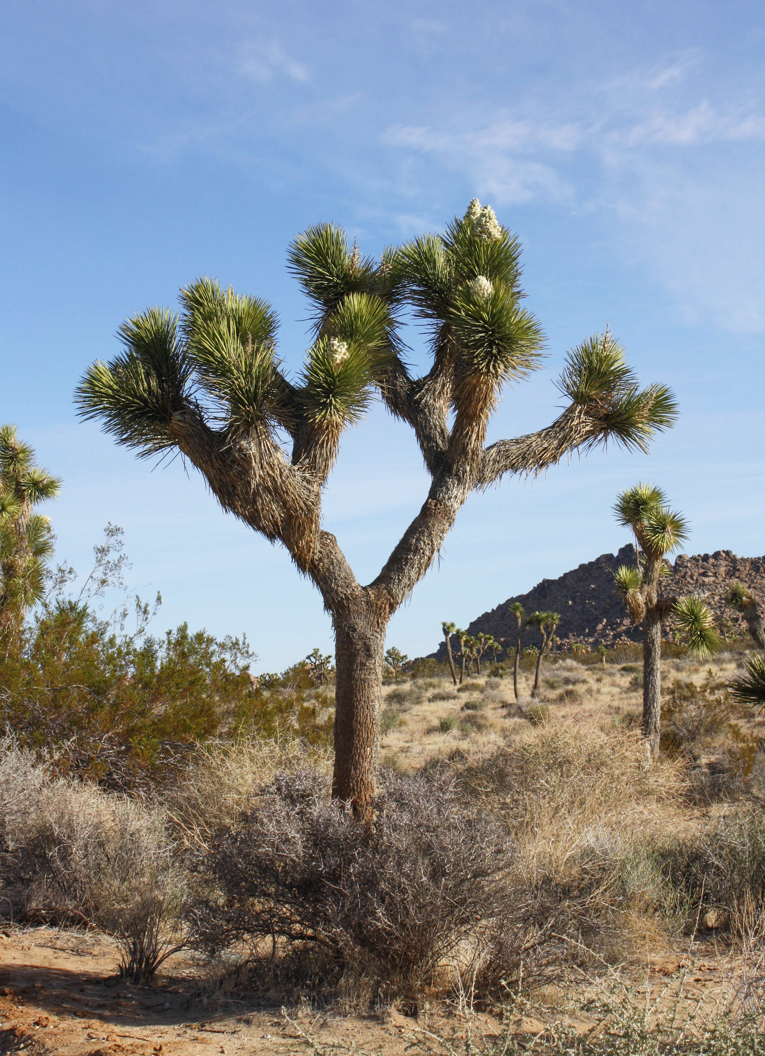 A Joshua Tree (Yucca brevifolia) in Joshua Tree National Park, California